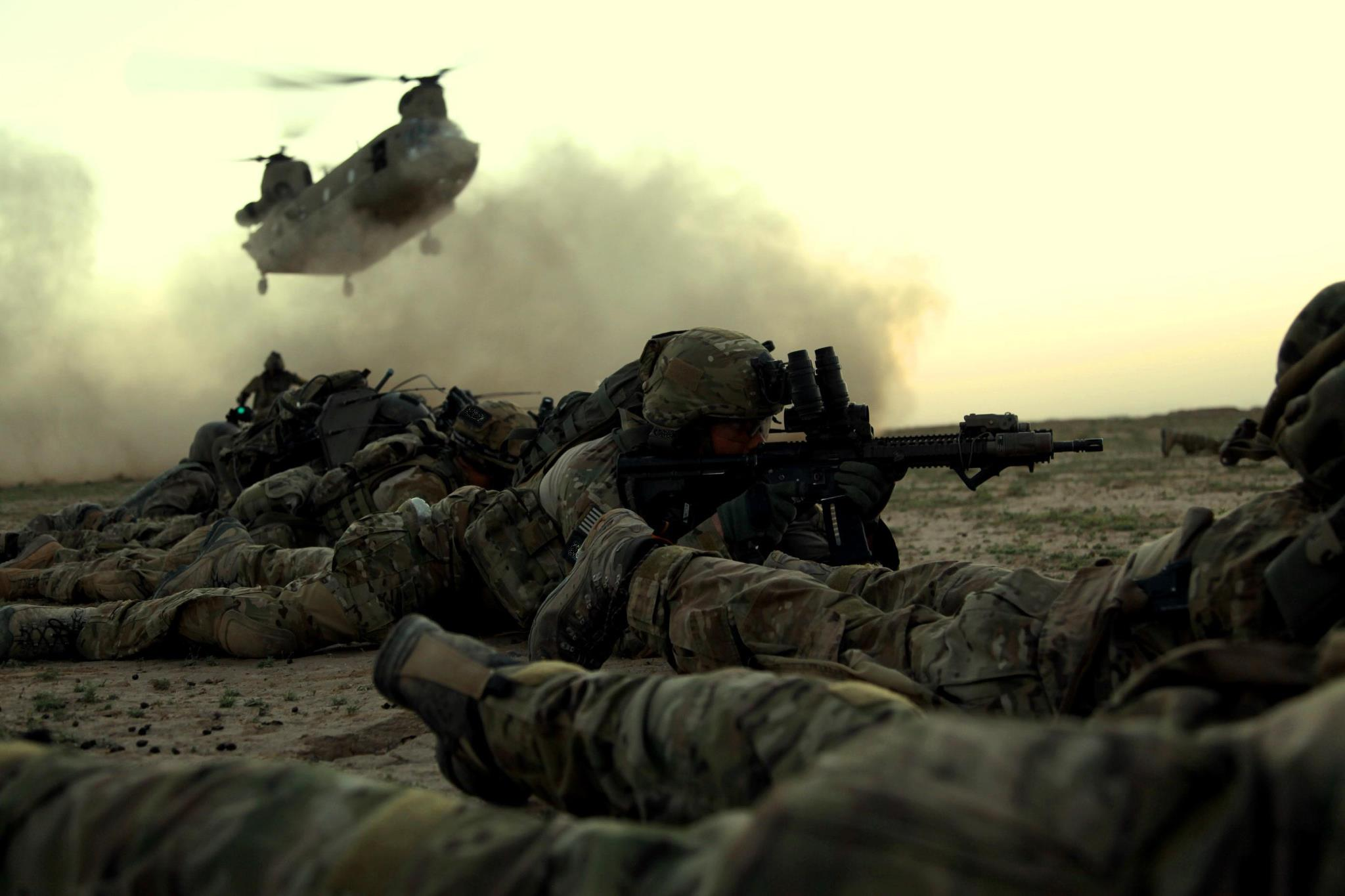 Rangers from 1st Battalion, 75th Ranger Regiment, as part of a combined Afghan and coalition security force operating in Ghazni Province, Afghanistan, await a CH-47 for extraction. Department of Defense photo by U.S. Army Pfc. Pedro Amador